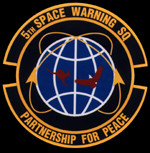 5th Space Warning Squadron